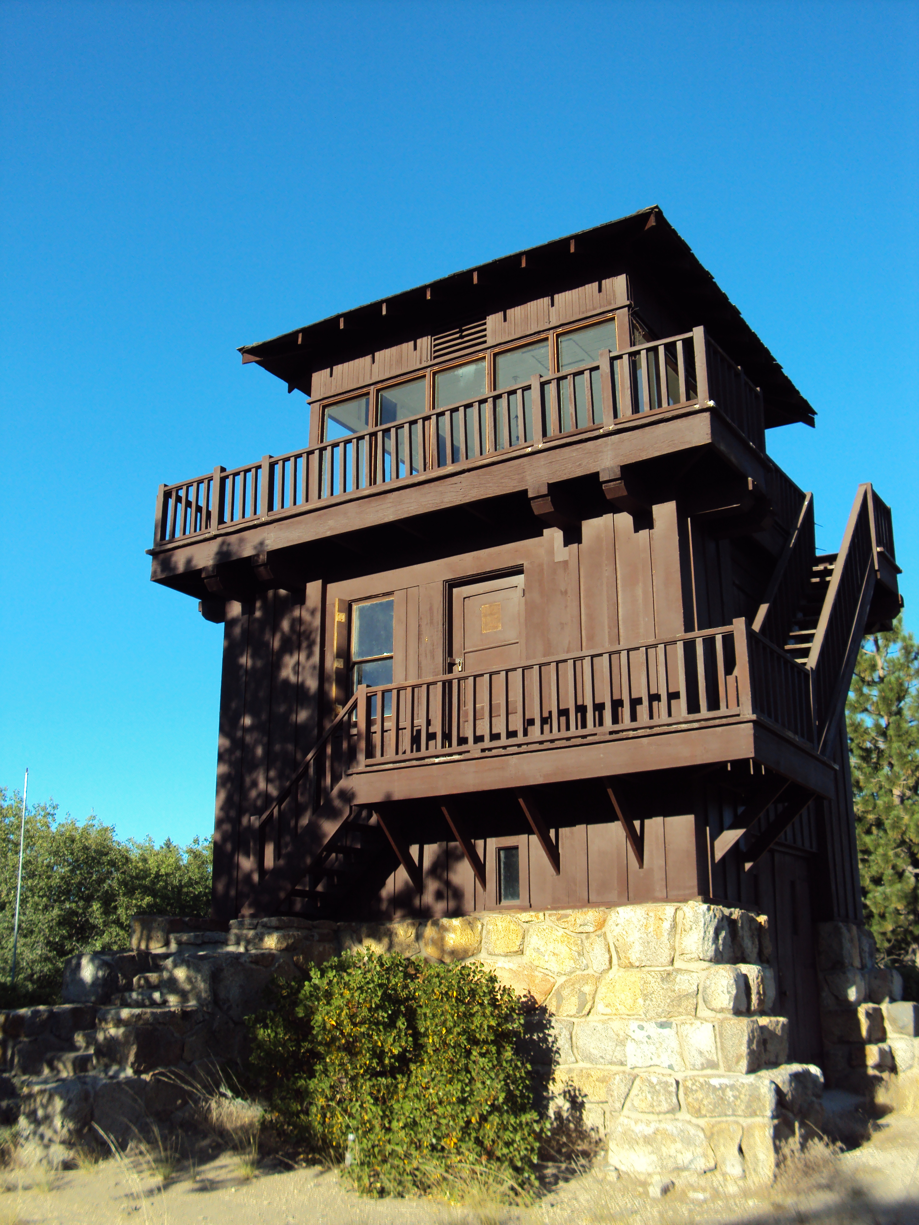 The Henness Ridge Fire Lookout — in western Yosemite National Park, California. Building by the Civilian Conservation Corps, built in 1939 in the Rustic style.